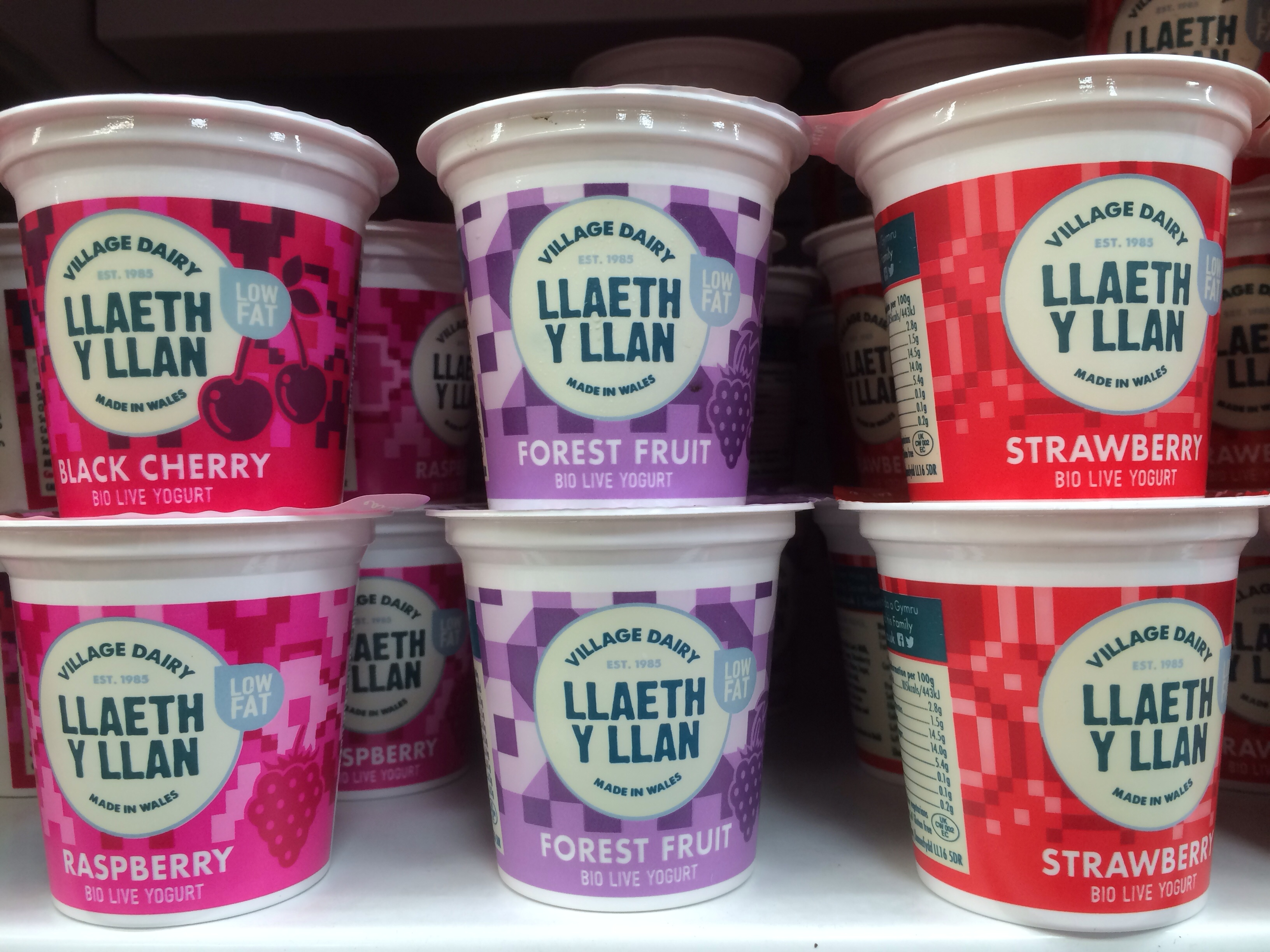 Llaeth y Llan, Village Dairy yogurt, 250 ml pots